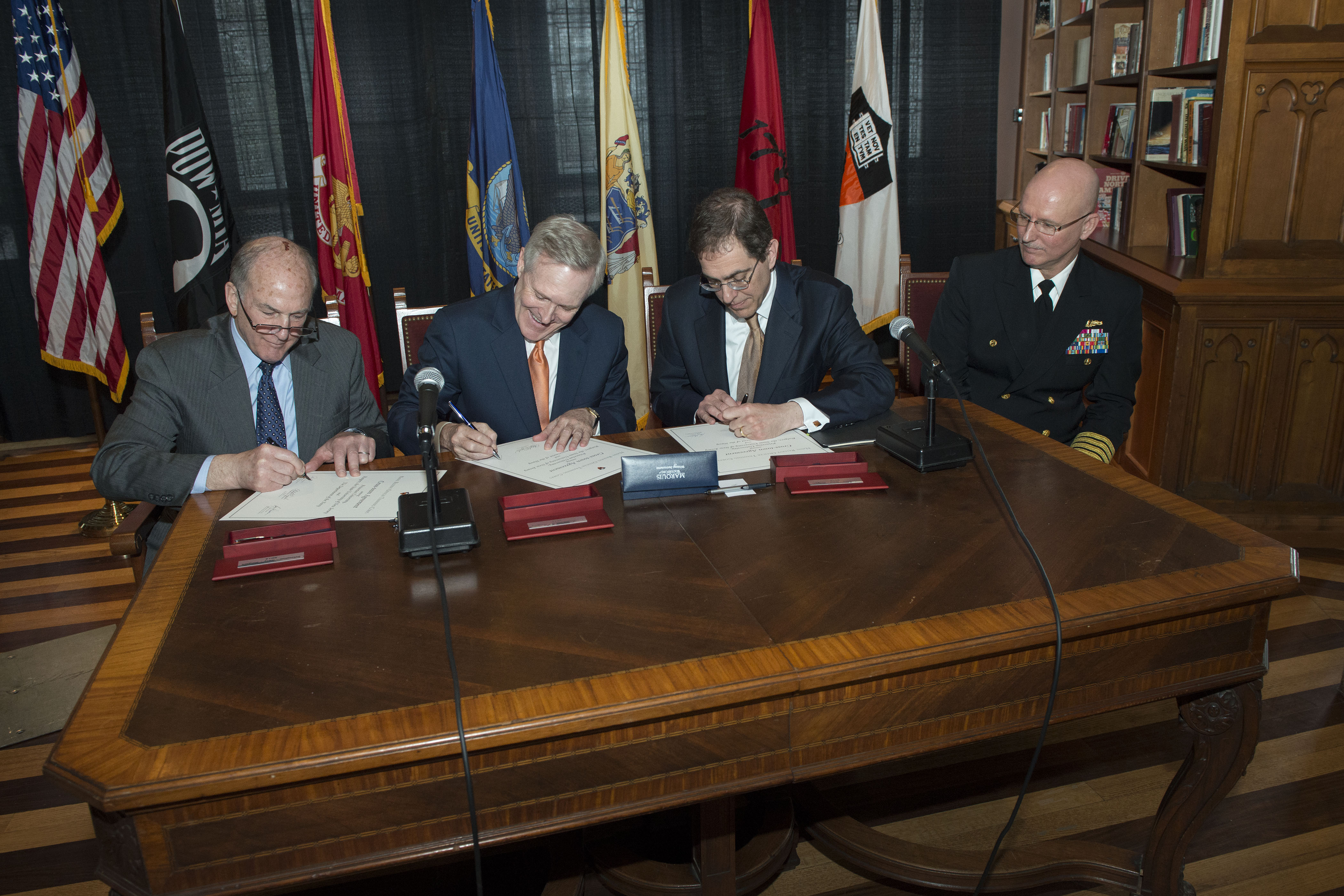 PRINCETON, N.J. (April 15, 2014) Secretary of the Navy (SECNAV) Ray Mabus, second from left, President of Rutgers University Robert Barchi, left, and President of Princeton University Christopher Eisgruber sign an agreement bringing Navy ROTC back to Princeton University, as Capt. Philip Roos, commanding officer of Rutgers Navy ROTC looks on. (U.S. Navy photo by Mass Communication Specialist 1st Class Arif Patani/Released) 140415-N-PM781-001 Join the conversation navylive.dodlive.mil